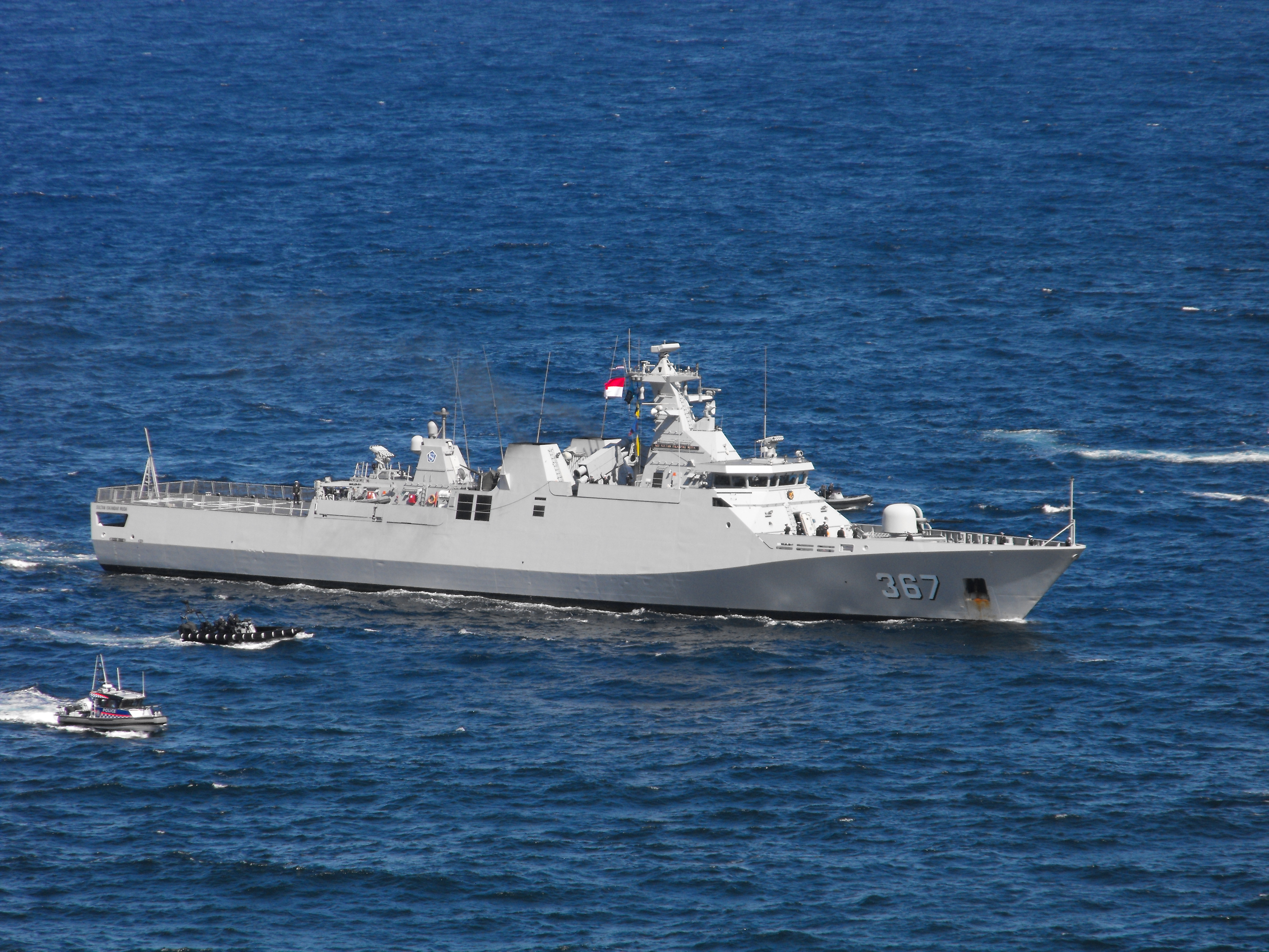 Photographs taken during day 2 of the Royal Australian Navy International Fleet Review 2013. The Indonesian corvette Sultan Iskander Maru entering Sydney Harbour.